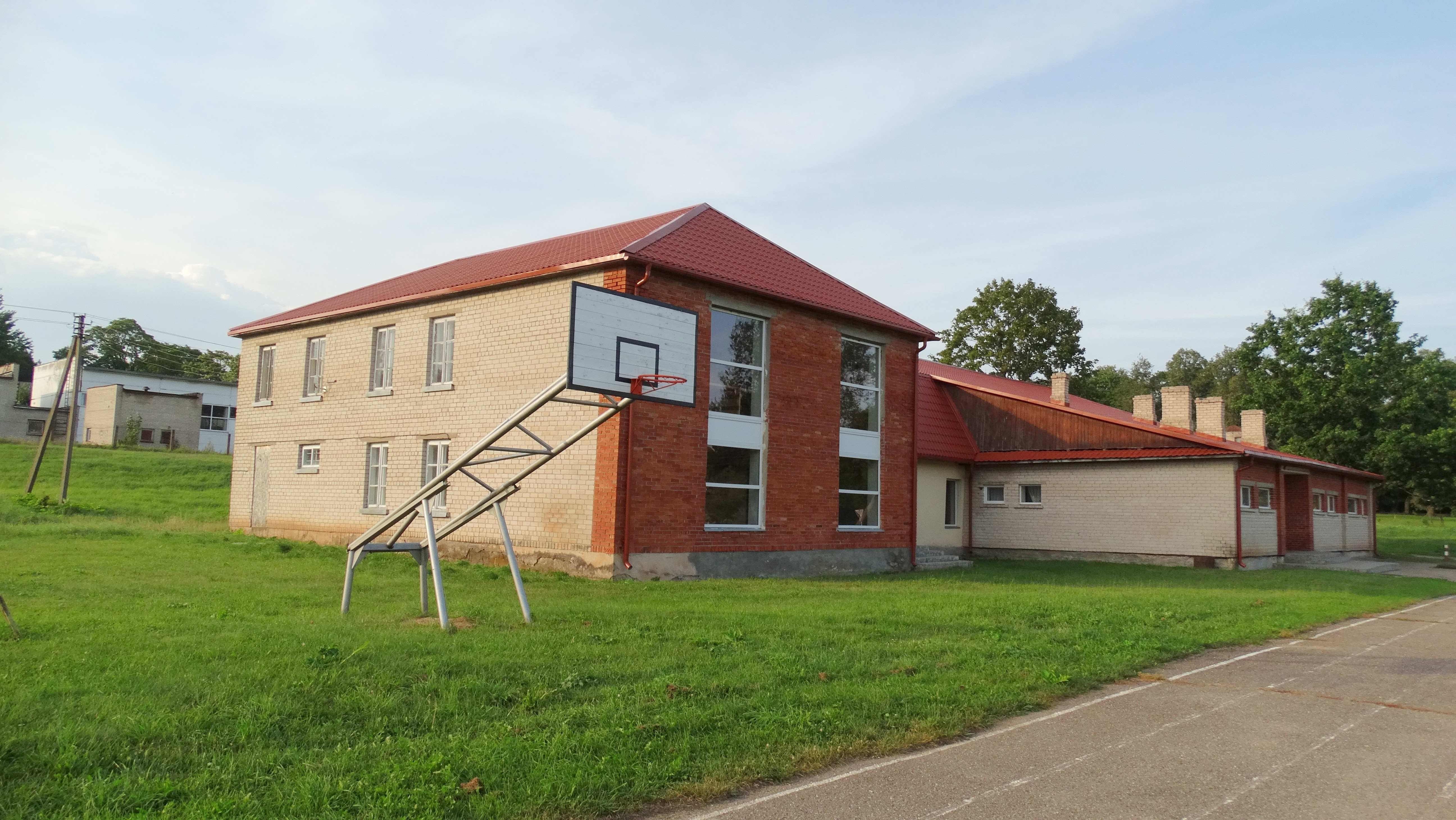 Cirkliškis, Center of Vocational Training, Švenčionys District, Lithuania